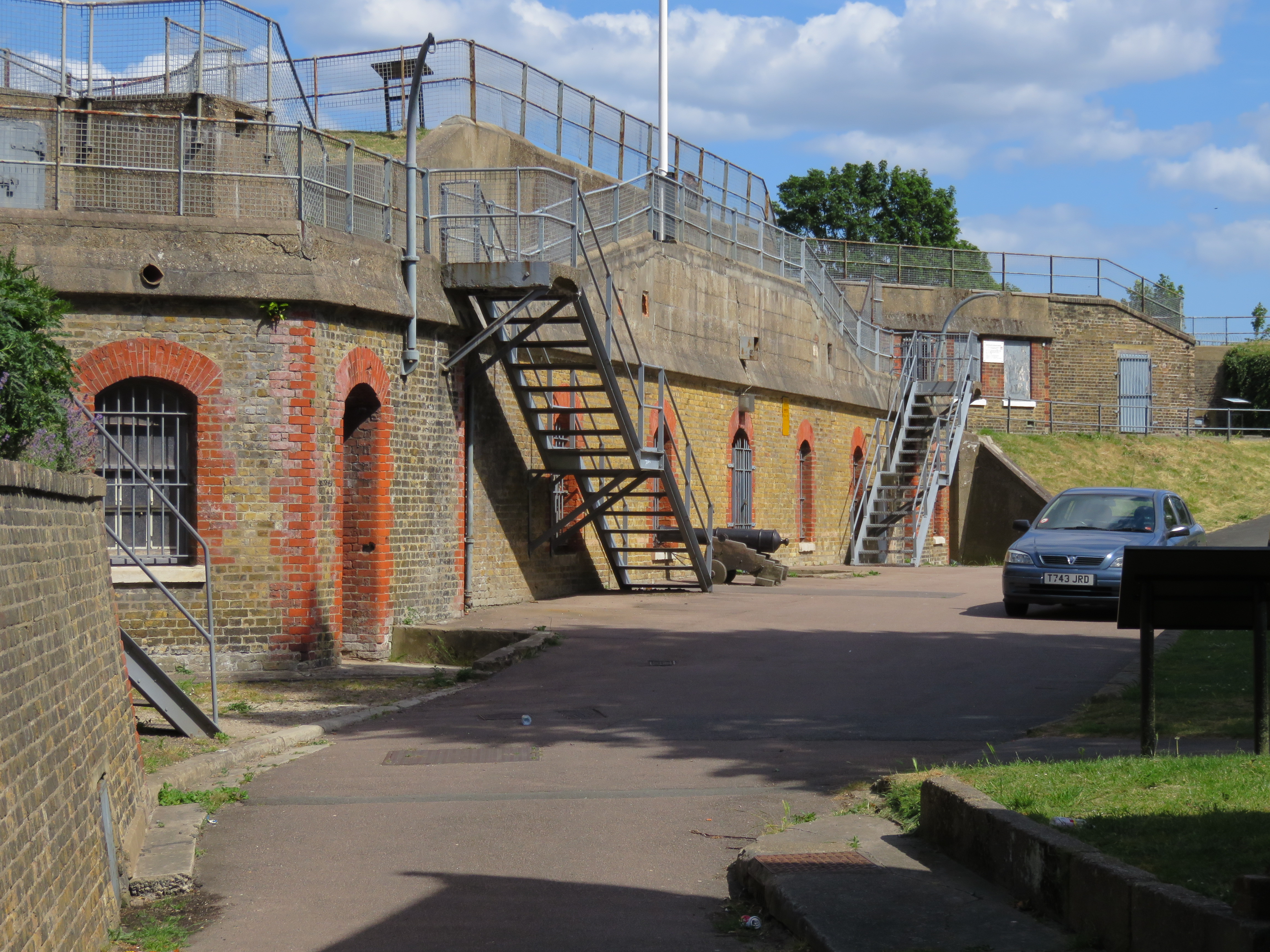 Part of New Tavern Fort